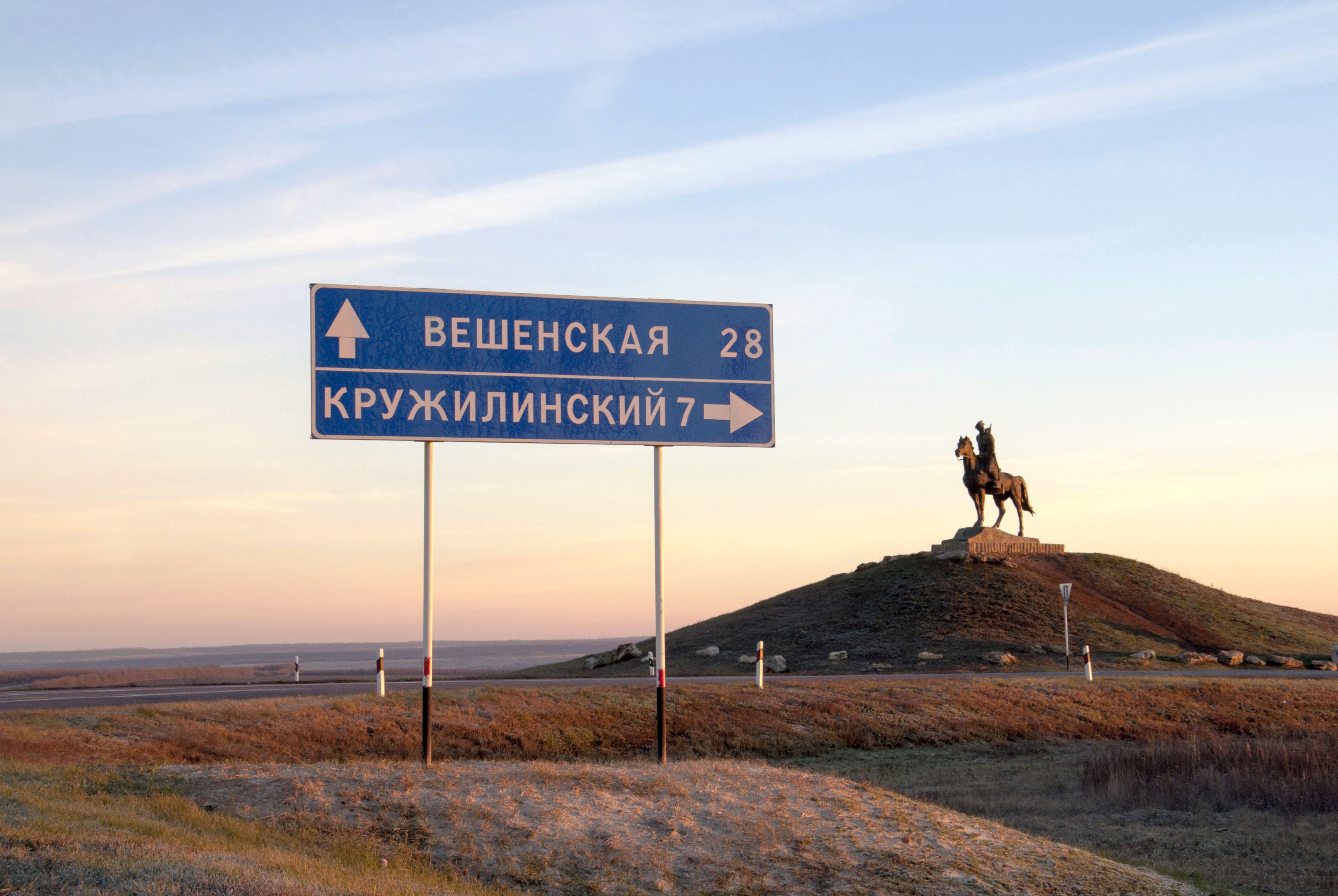 The bronze monument to the Cossacks of the quiet don before turning on the village Kruzhilinskiy, Sholokhov district, Rostov region, Russia.